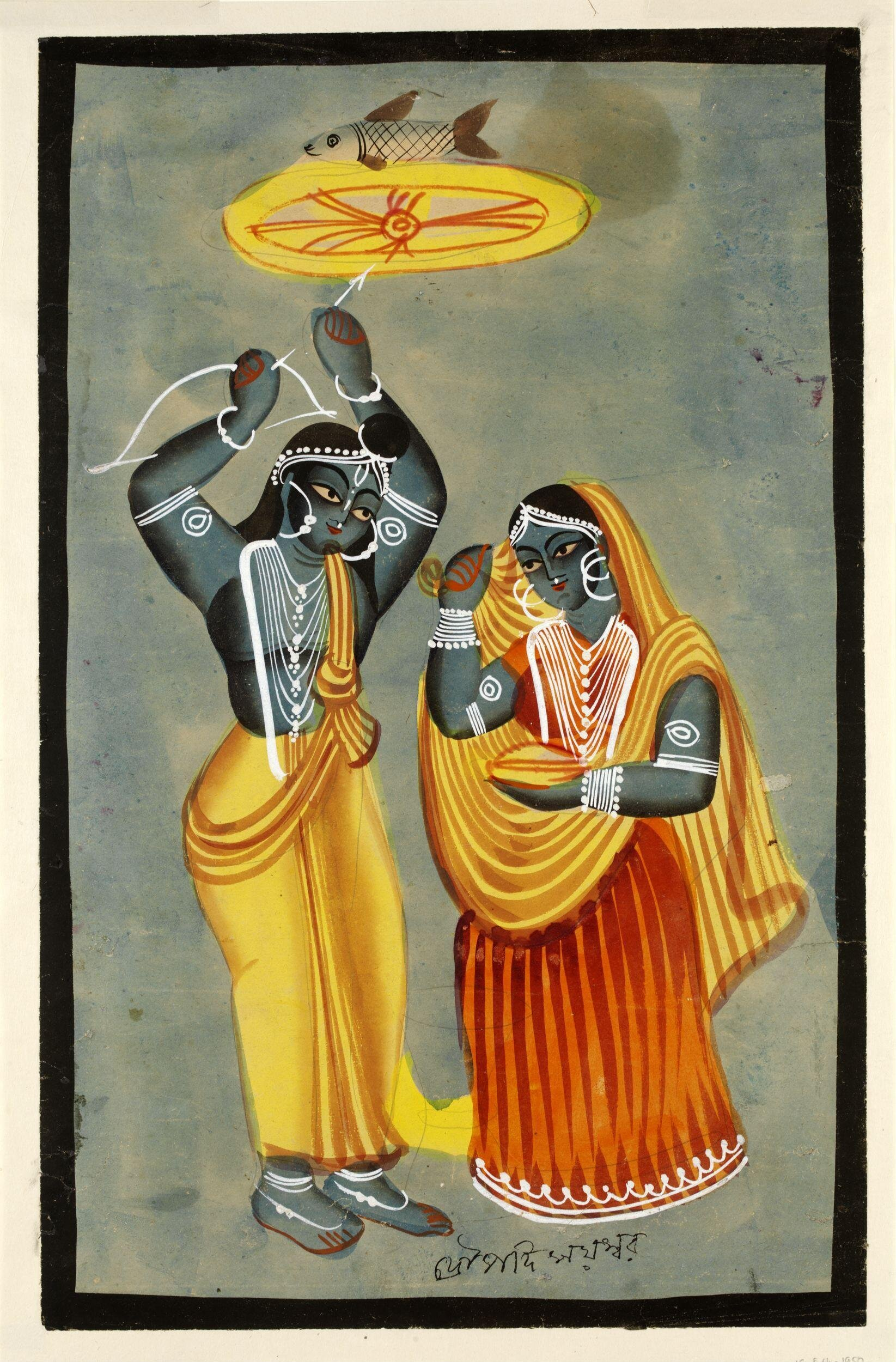 Arjuna shooting at the eye of a fish to obtain Draupadi in marriage